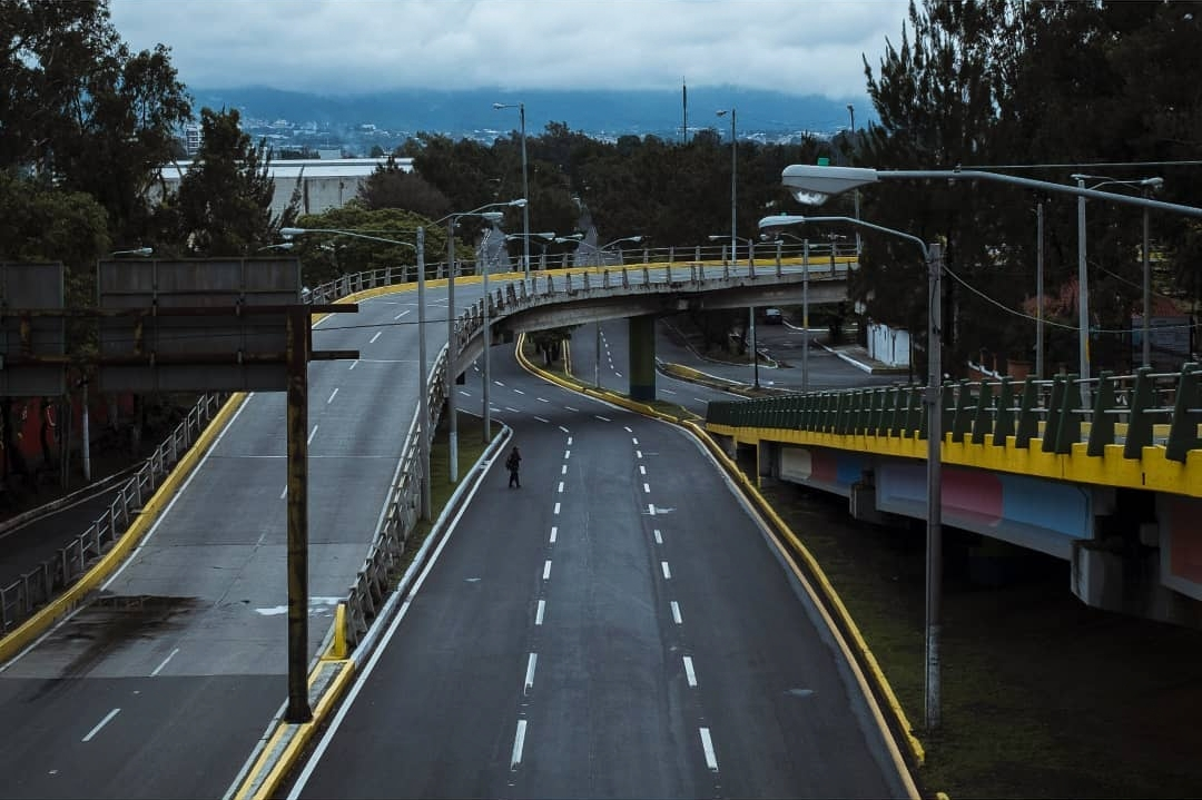 Anillo Periférico, Ciudad de Guatemala